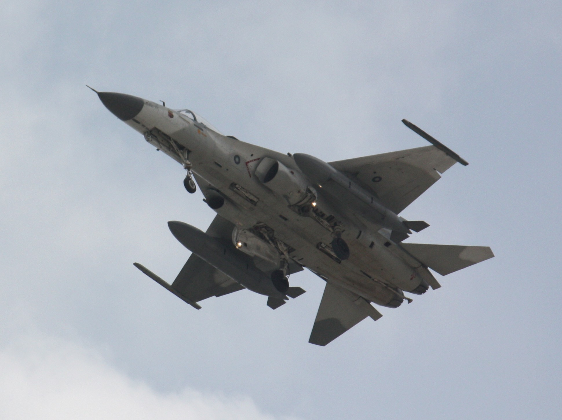 AIDC F-CK-1 Ching-kuo in Tainan